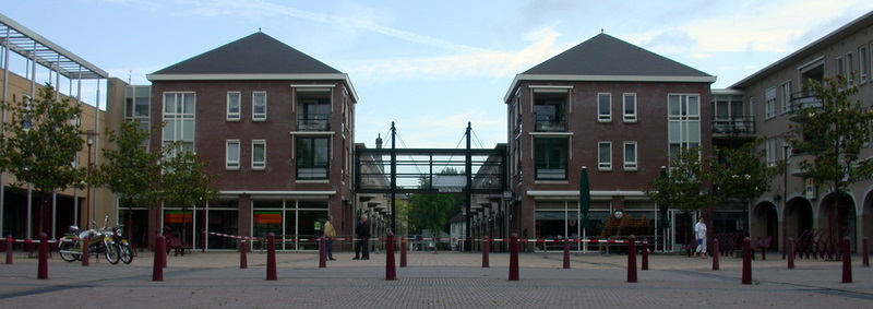 Furenthela, shopping centre and appartment complex in Voerendaal, Netherlands